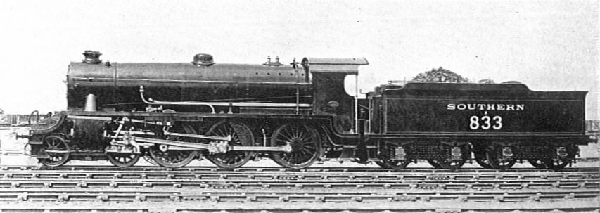 Typical British Freight Locomotives 4-6-0 Locomotive for Express Freight Traffic, Southern Rly. London & South Western Railway S15 class 833